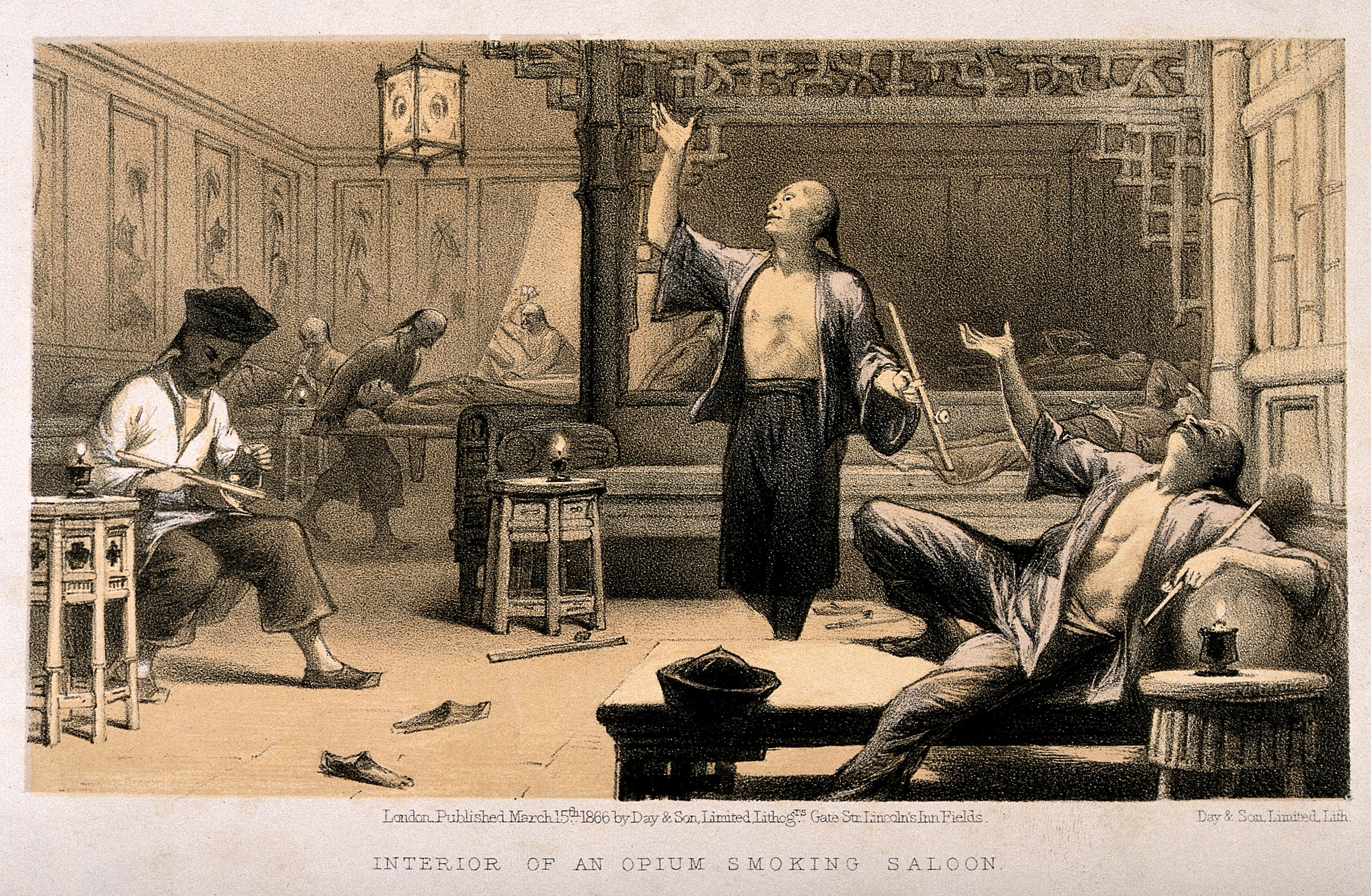 Chinese opium smokers in a saloon experiencing various effects of the drug. Tinted lithograph, c. 1866, after T. Allom. Iconographic Collections Keywords: Thomas Allom; Day & Son.